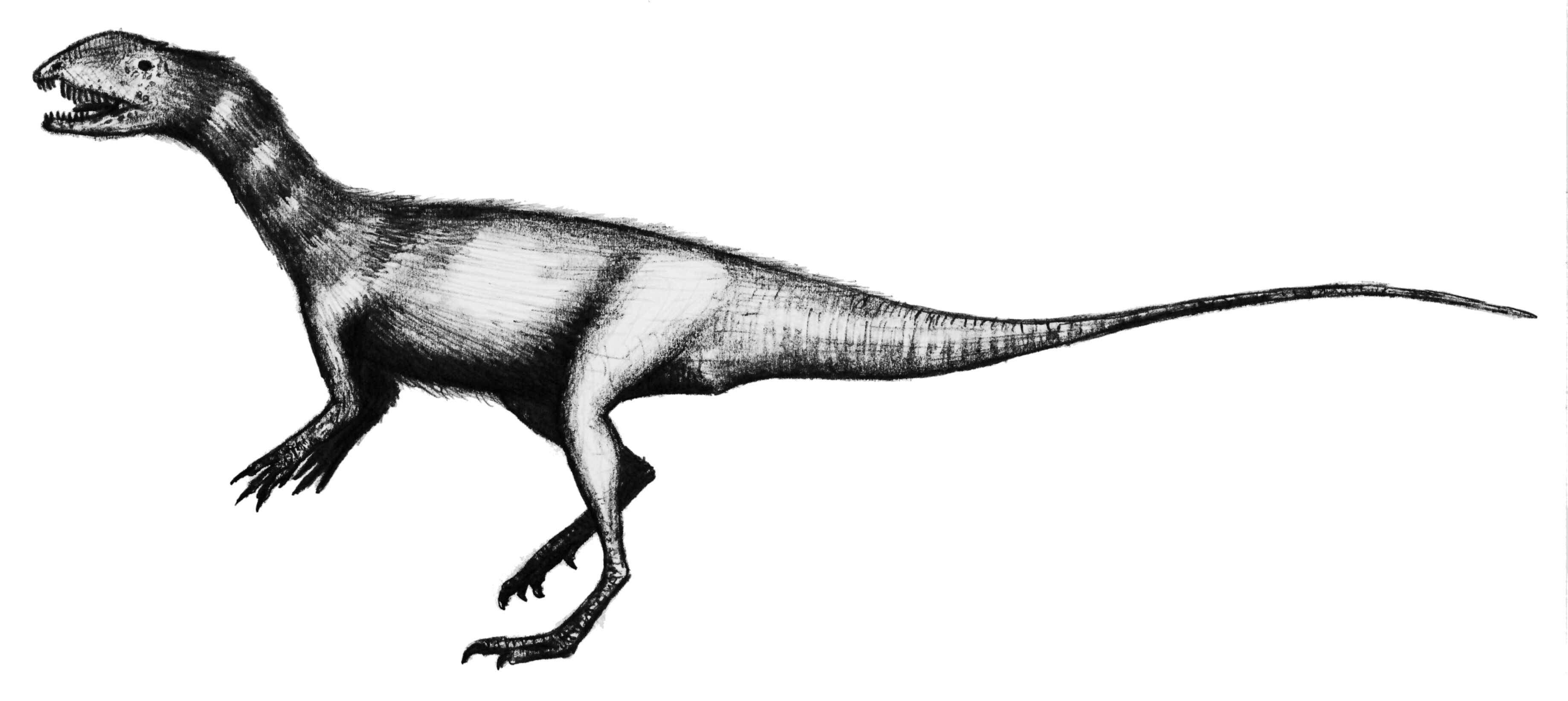 Dracovenator